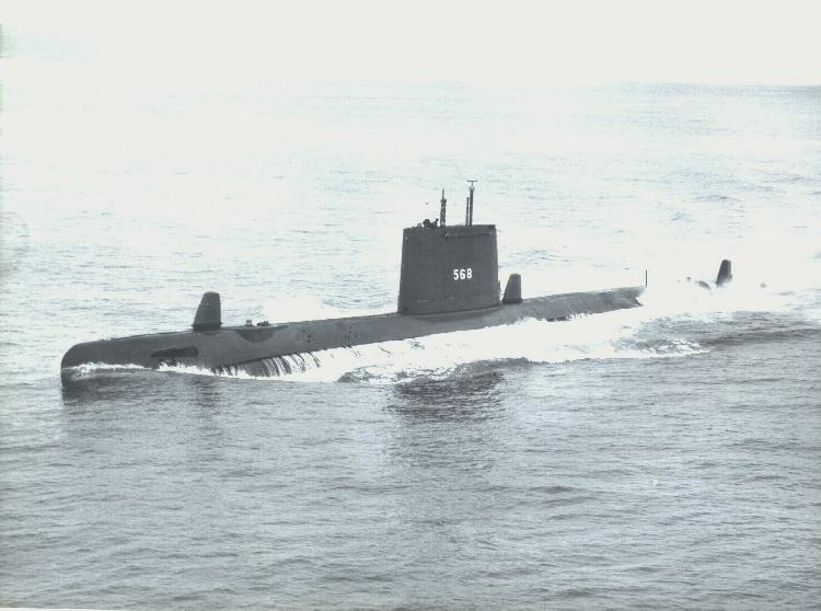 USS Harder (SS-568) with three shark-fin arrays, known as Puffs, passive fire-control system, BQG-4, circa 1968. USN photo courtesy of ., text courtesy of John Hummel.